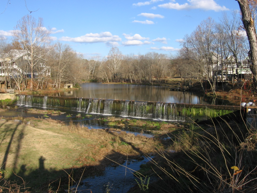 Buck Creek Dam in Helena, AL during low flow. Also known as Davidson Dam